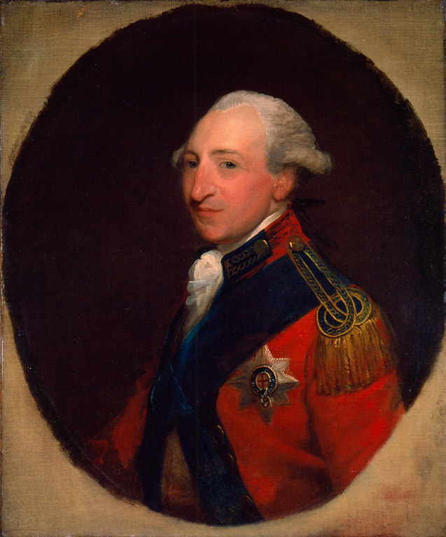 Portrait of Hugh Percy, Second Duke of Northumberland by Gilbert Stuart, c. 1788, High Museum of Art